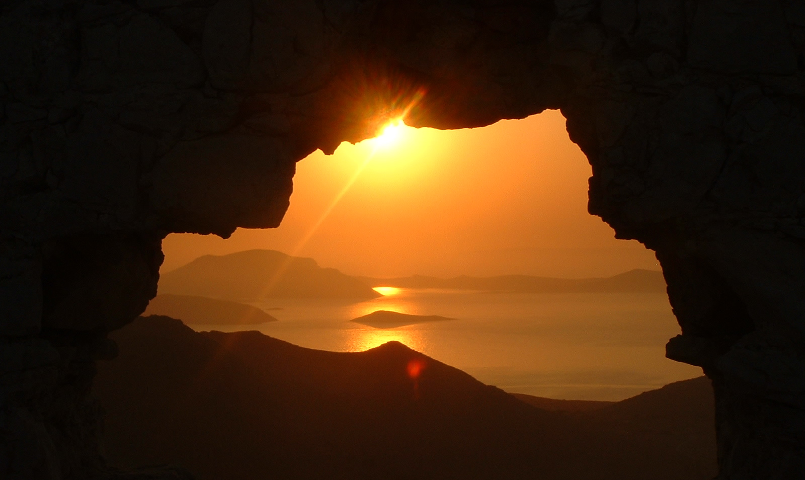 Kolofonas islet, east of Chalki, Dodecanese, Greece